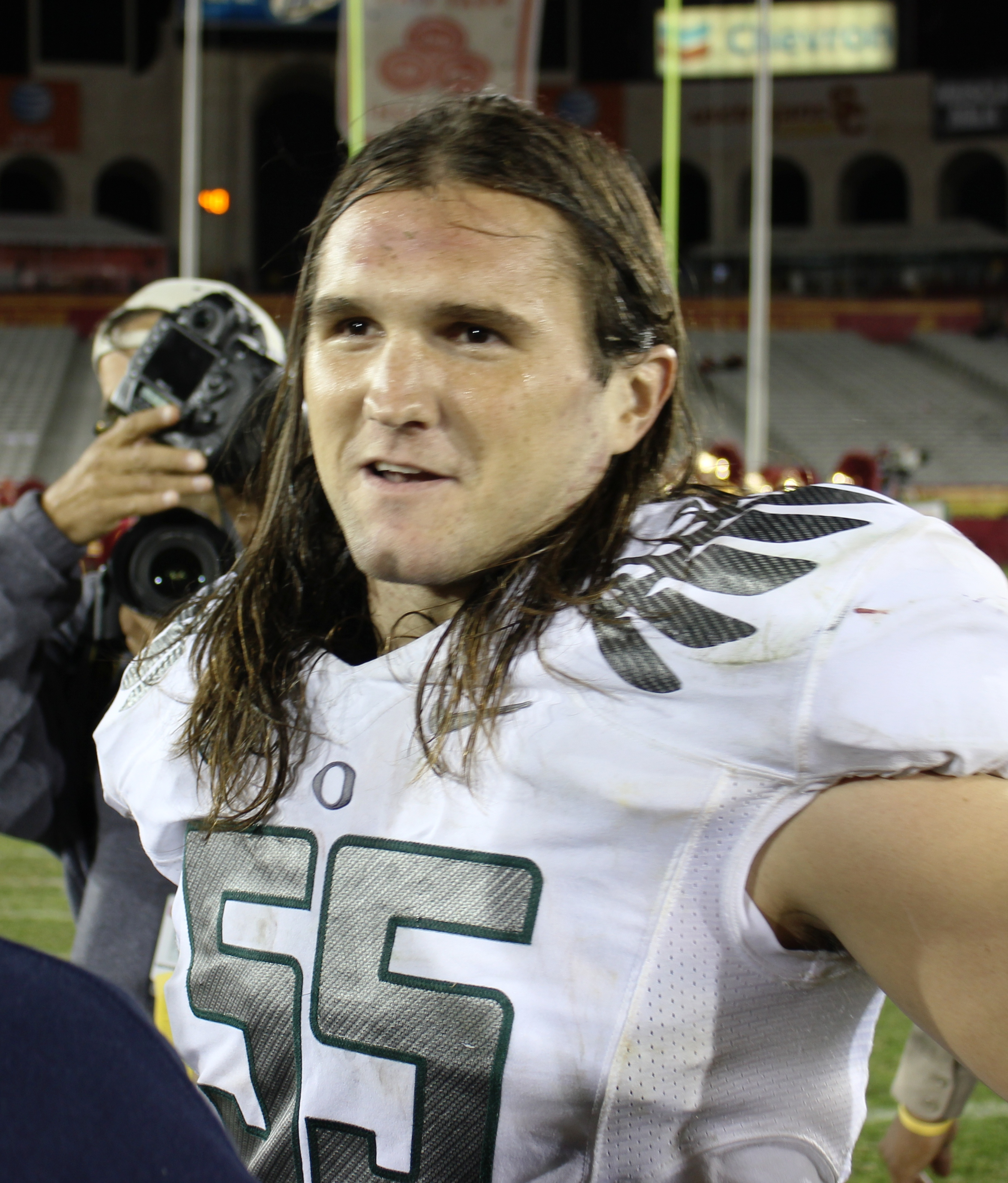 The Oregon Ducks beat the USC Trojans 53-32 at the Los Angeles Memorial Coliseum Saturday October 30, 2010. (Shotgun Spratling/Neon Tommy)